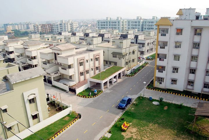 Vijaya Heritage at Jamshedpur City